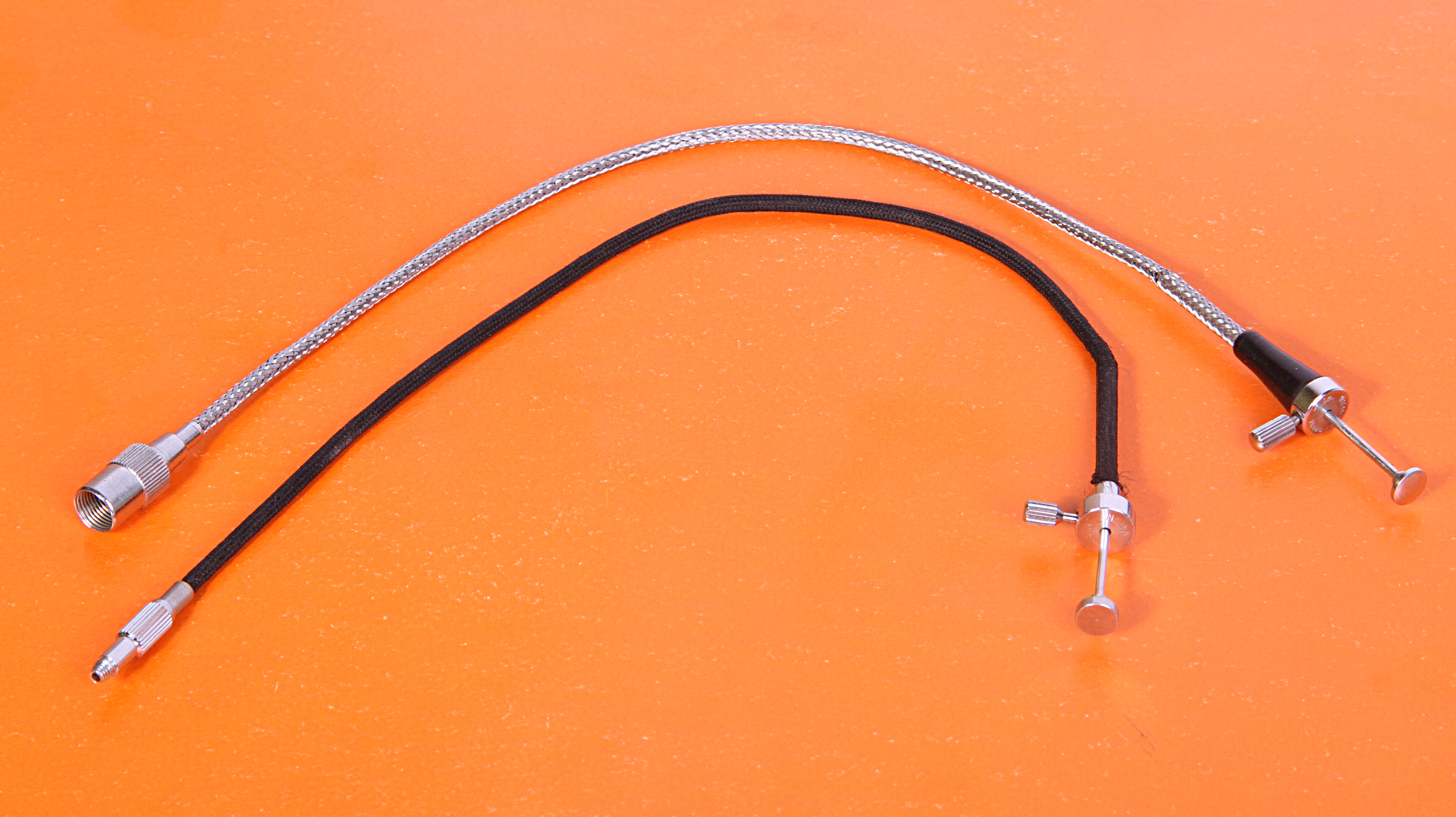 Two shutter release cables.